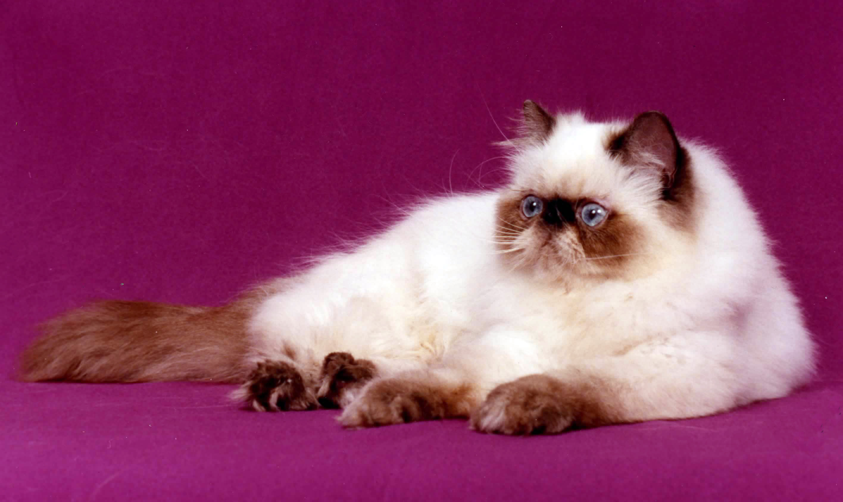 Chocolate Himalayan/Colorpoint Persian